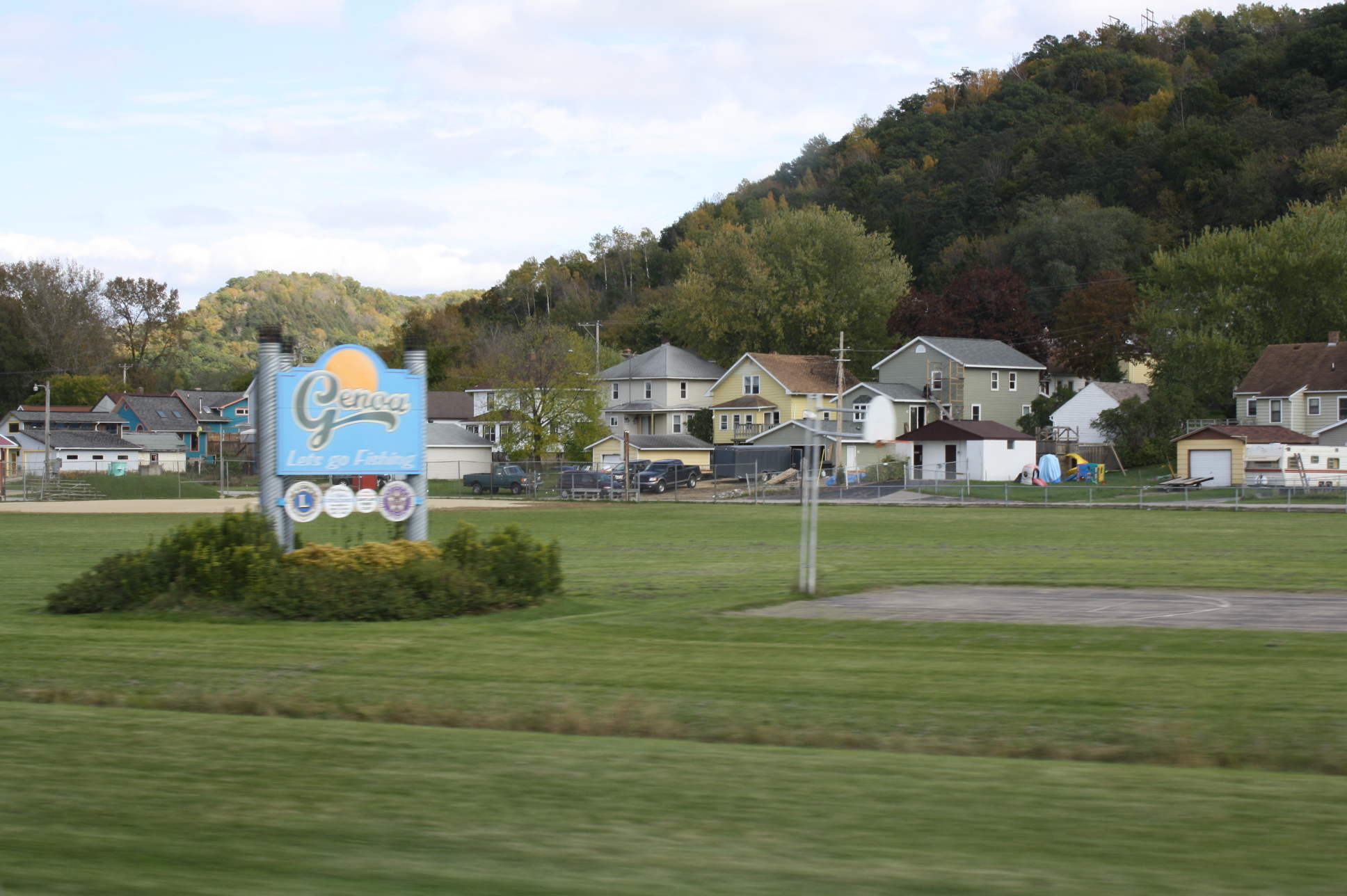 Looking east at Genoa, Wisconsin and its sign on Wisconsin Highway 35.